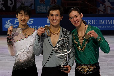 The men's podium at the Trophée Eric Bompard 2013. From left: Yuzuru Hanyu(2nd); Patrick Chan(1st); Jason Brown(3rd).